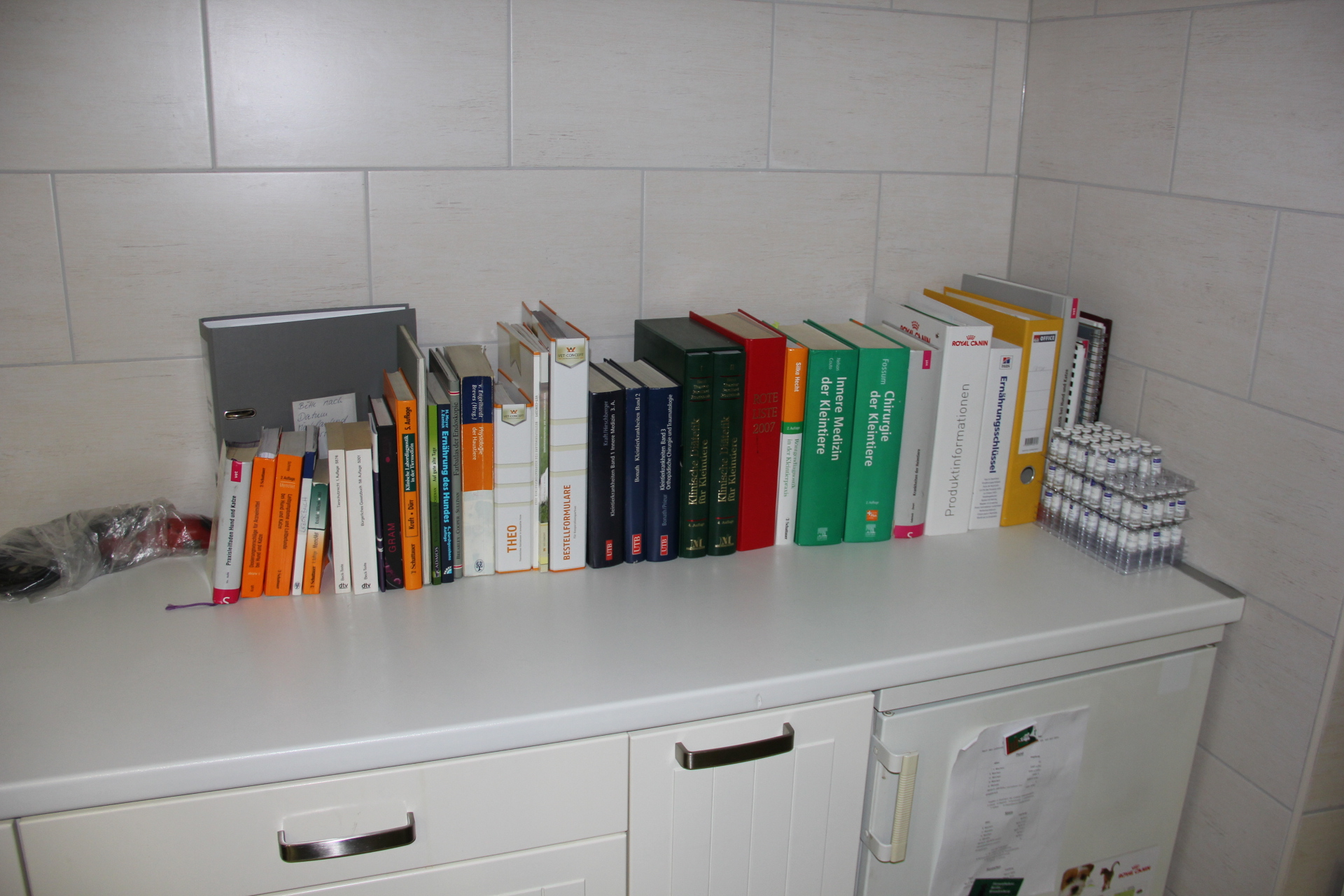 Literature in a veterinary doctor's office